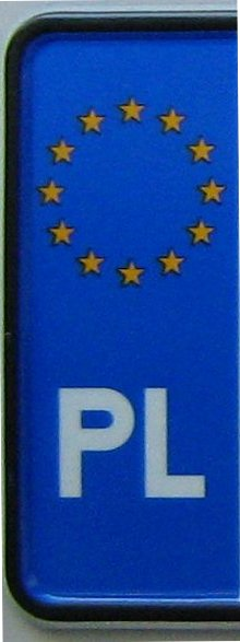 This blue strip of the Polish vehicle registration plate with the country code and the European flag symbol (12 yellow stars).